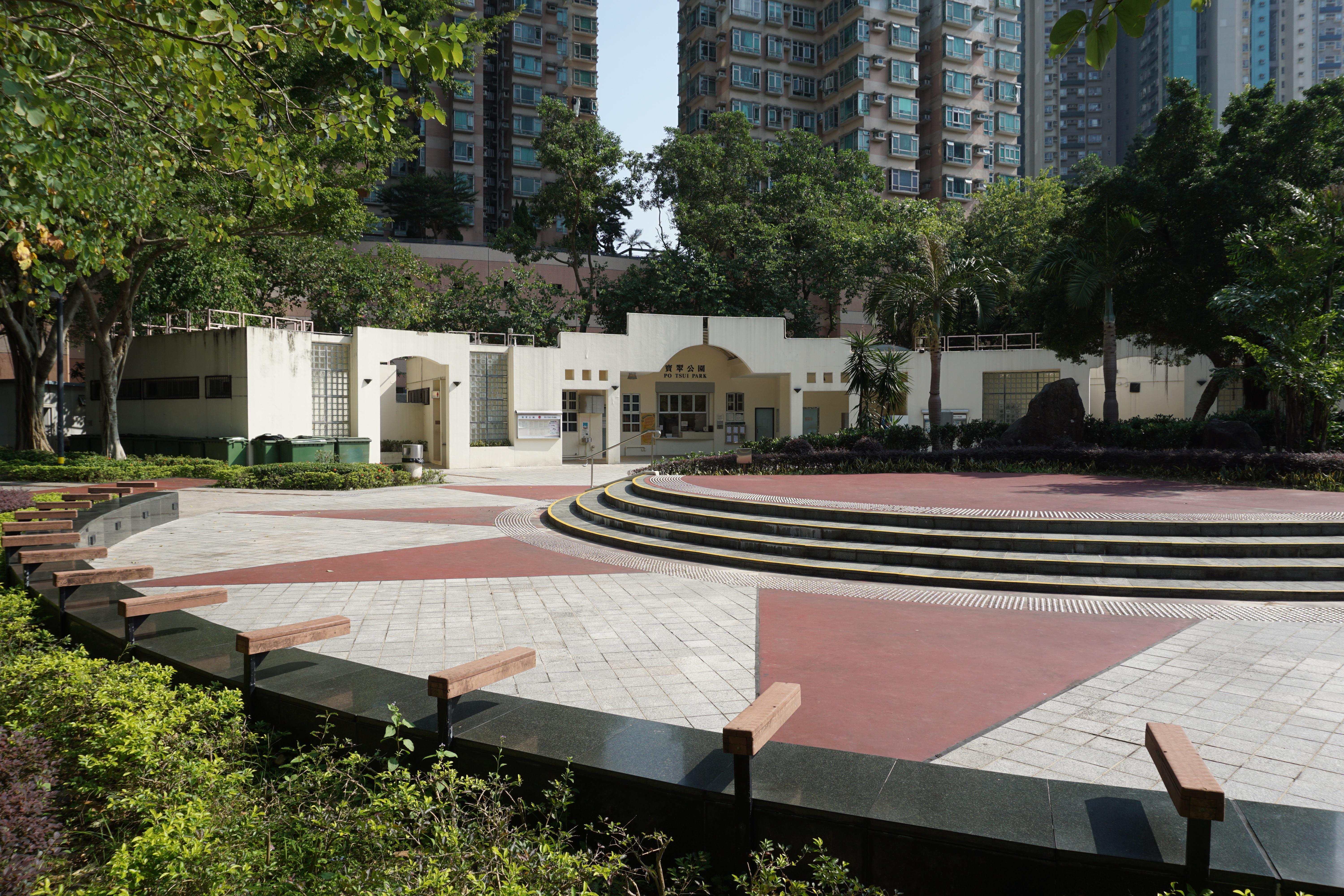 Po Tsui Park in Po Lam, Hong Kong.